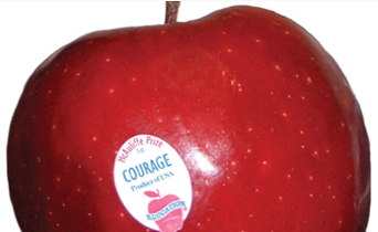 The Christa McAuliffe Prize logo